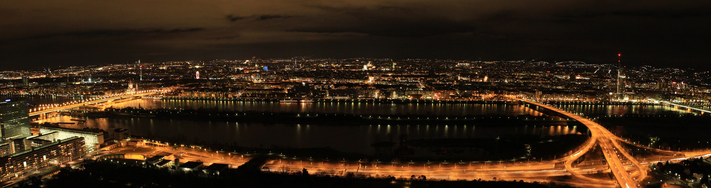 Night view panorama from Donau Tower